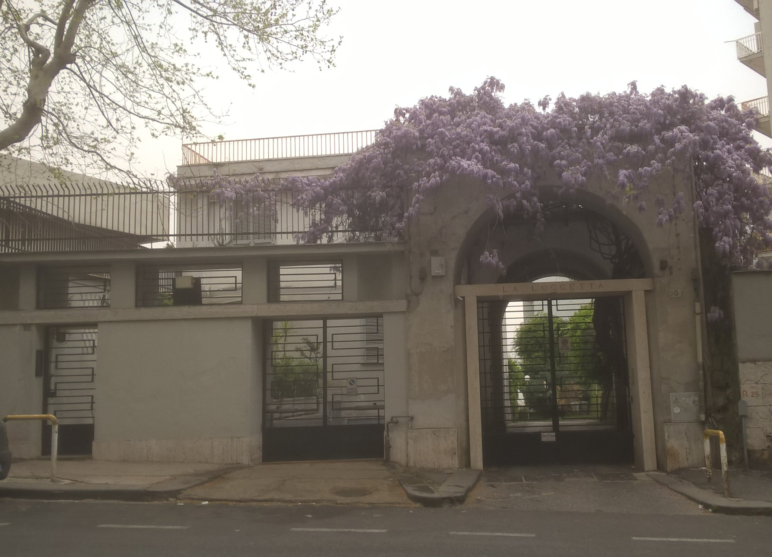 Villa 'La Loggetta' in Naples. (1936-1937)